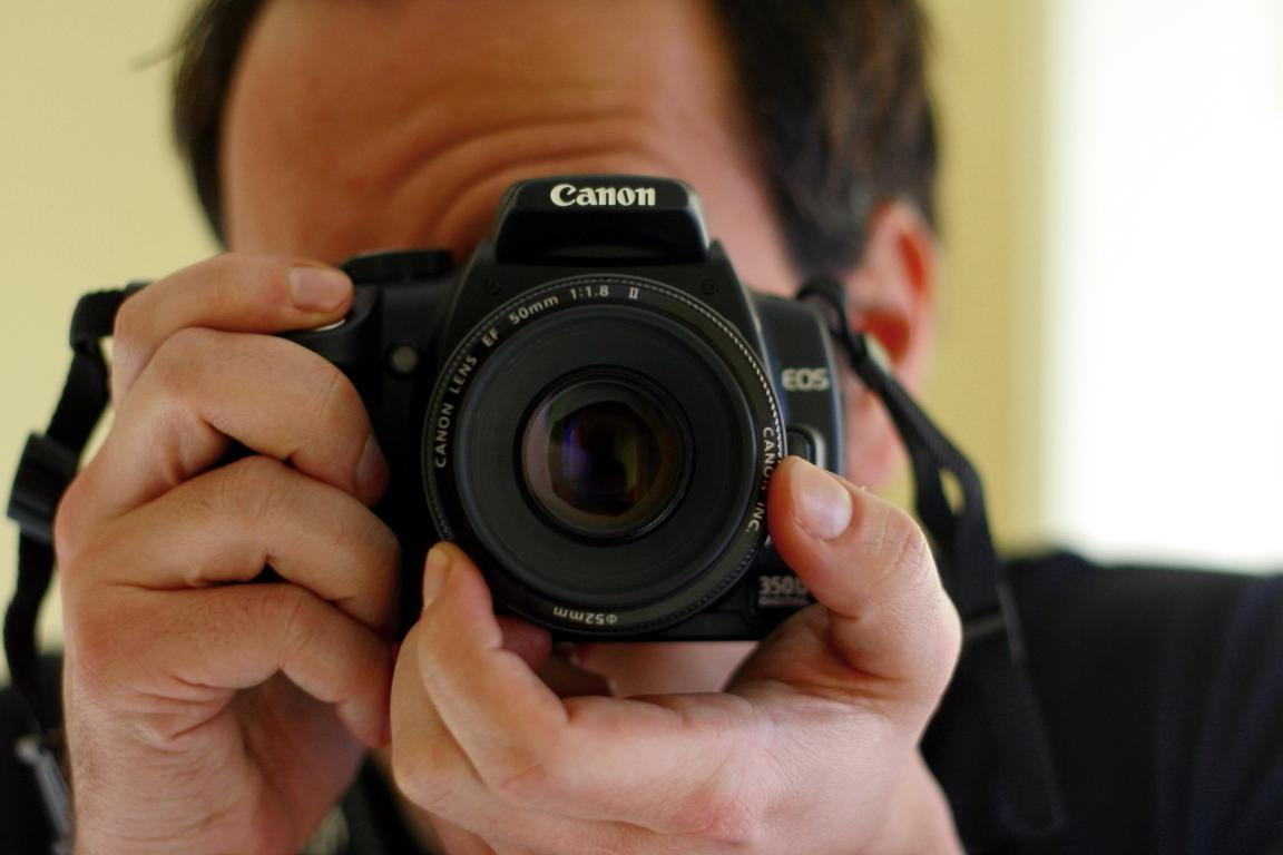 Photographer